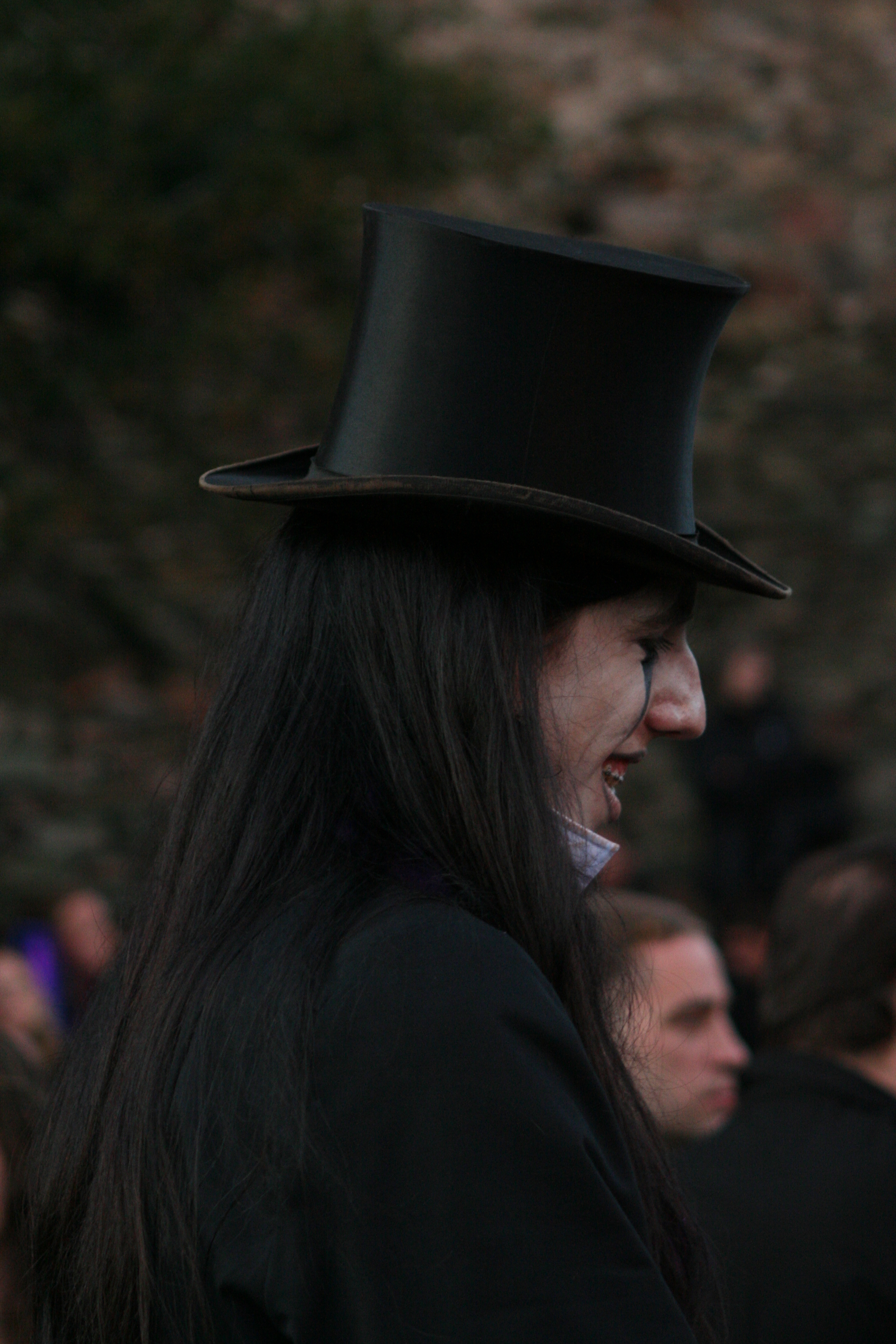 Castle Party 2007